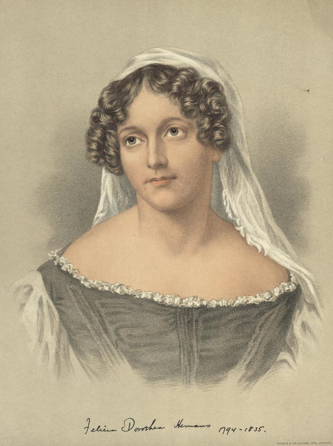 A portrait from the Welsh Portrait Collection at the National Library of Wales. Depicted person: Felicia Hemans – English poet (1793-1835)